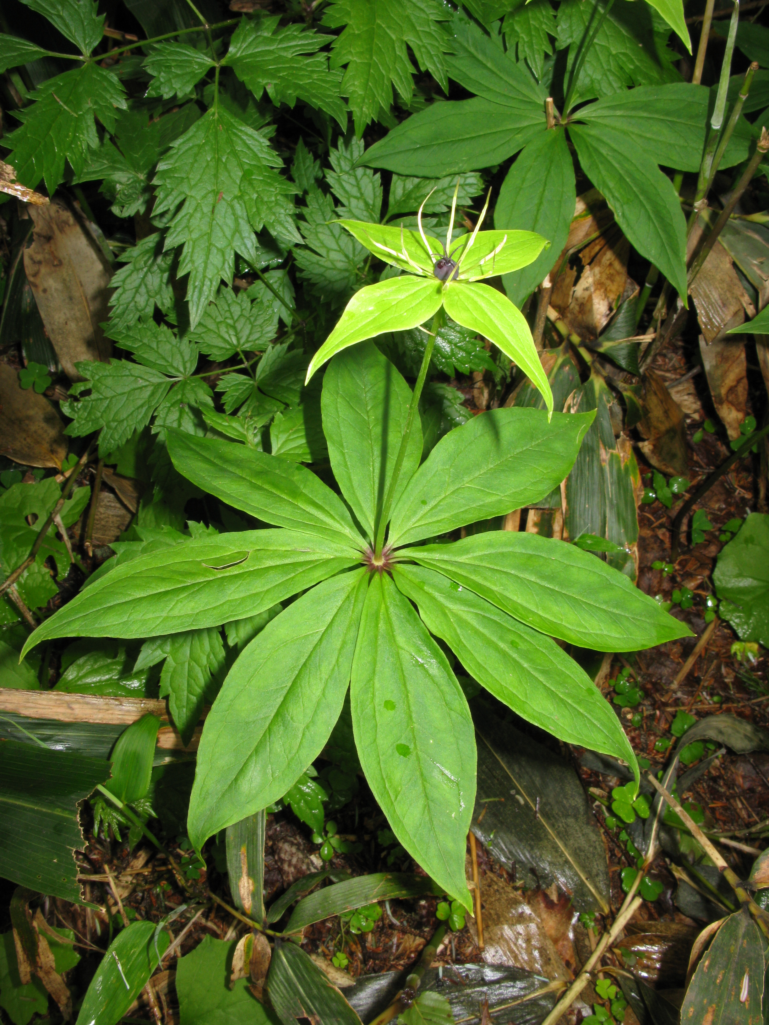 Paris verticillata, Oze, Fukushima pref., Japan